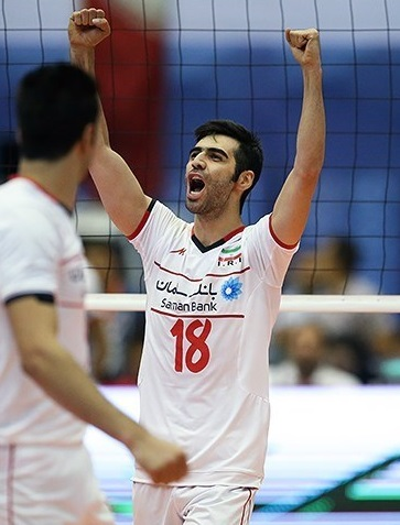 Vadi at the semi-final match of 2015 Asian championship vs China, Tehran